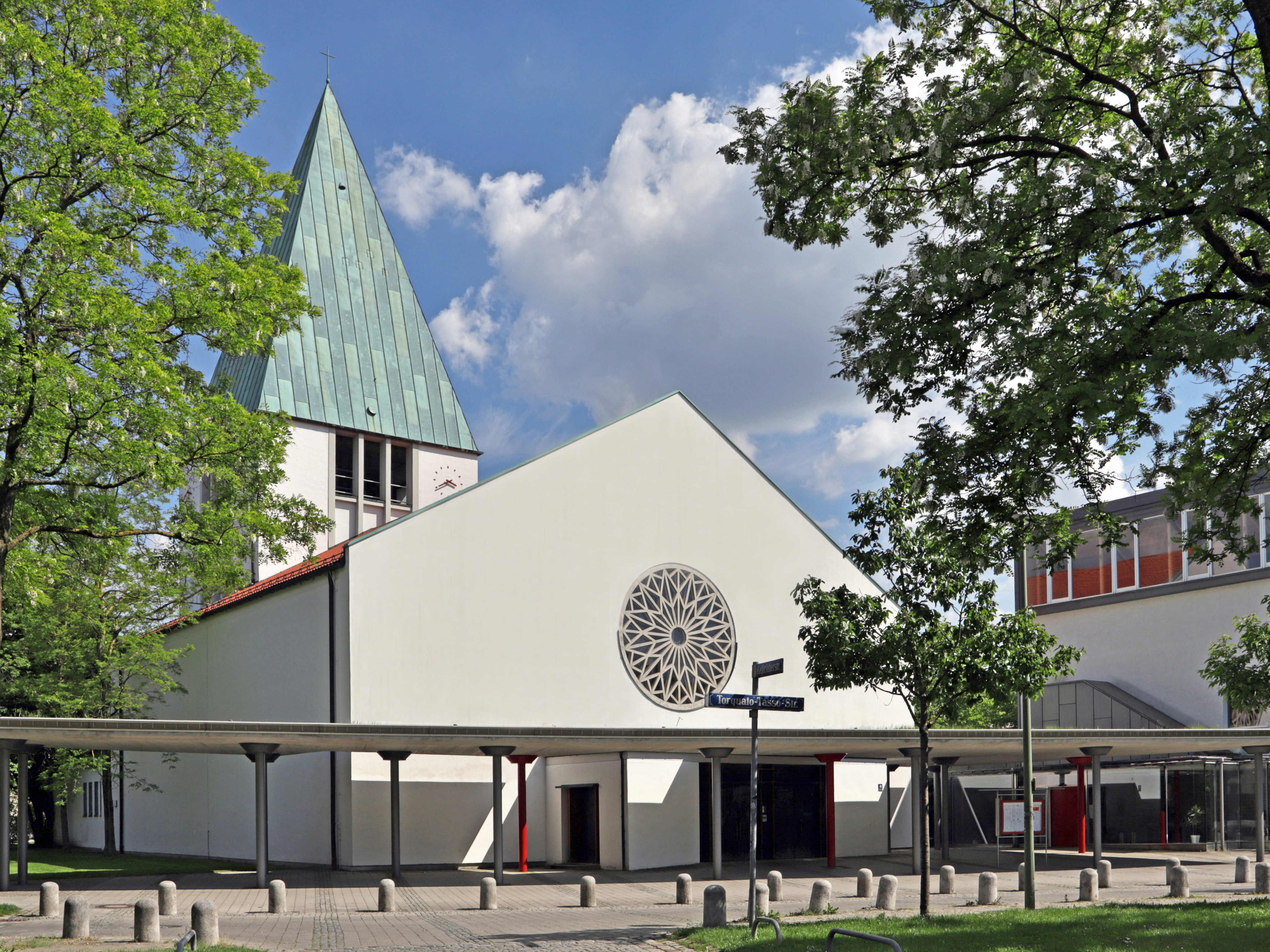 St. Lantpert München